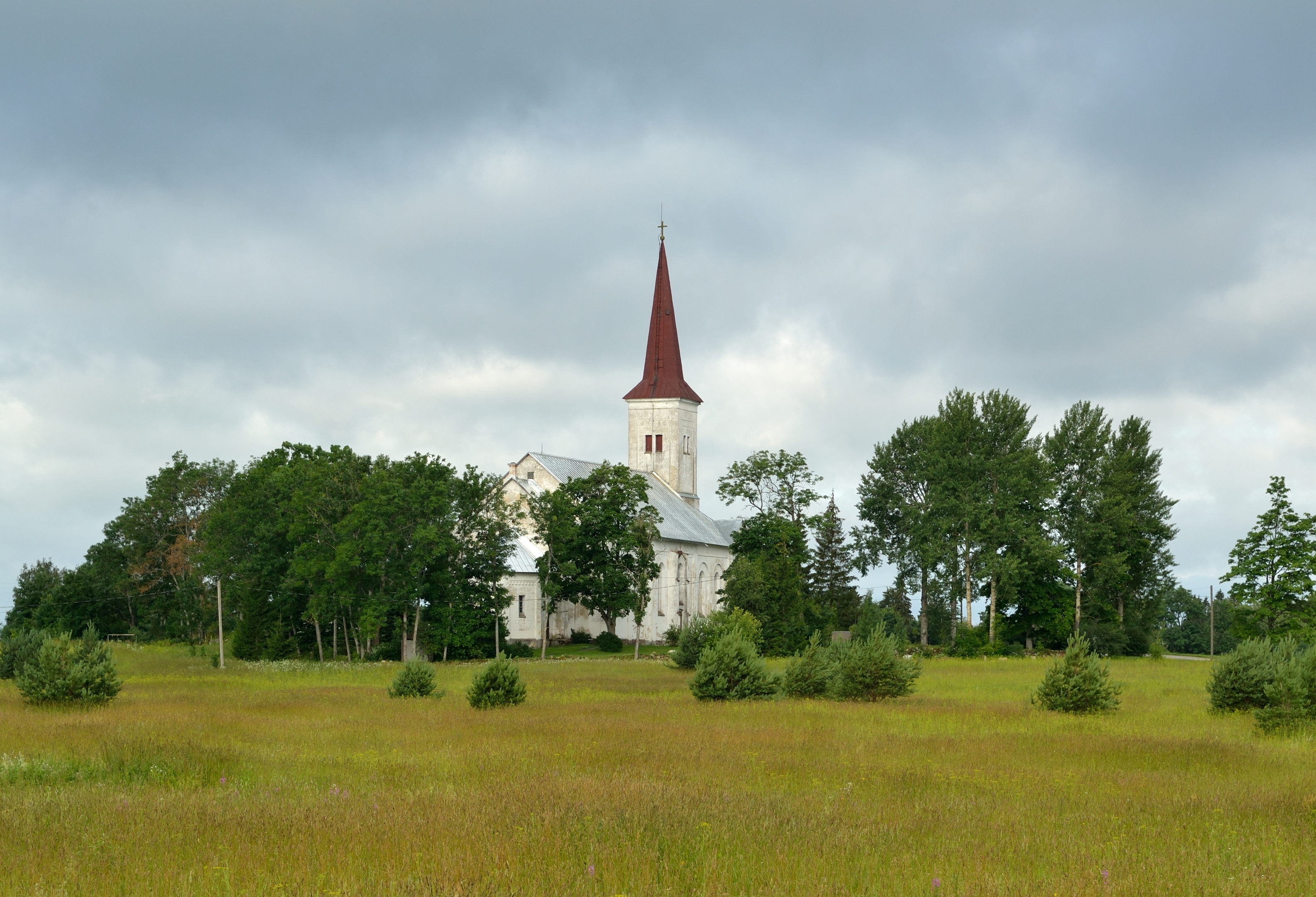 Harju-Jaani church